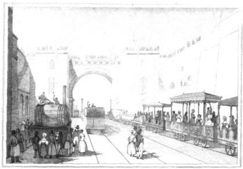 Bouwkundig handboek, deel Vier, illustratie, 1834